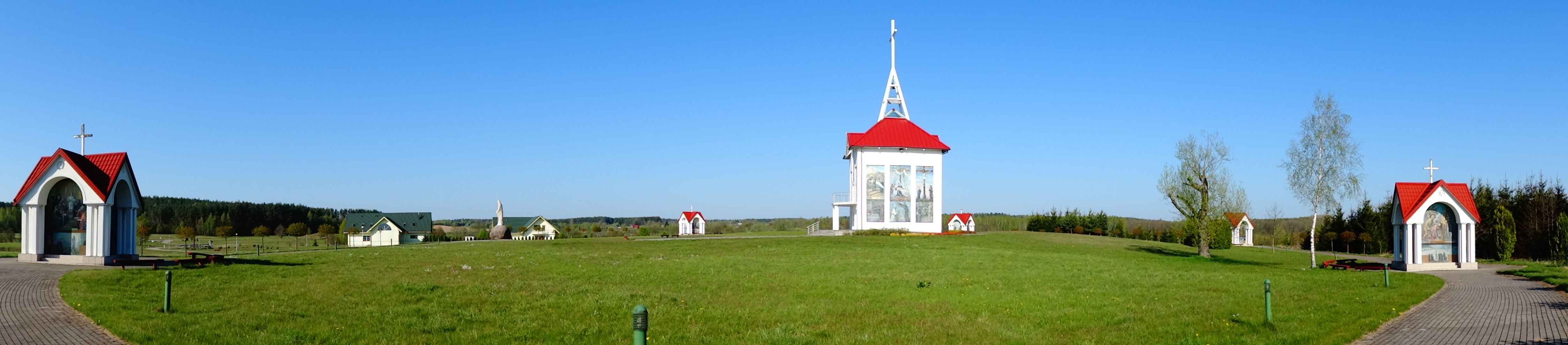 Chapel, Rosary Mysteries Park in Guronys, Kaišiadorys District, Lithuania